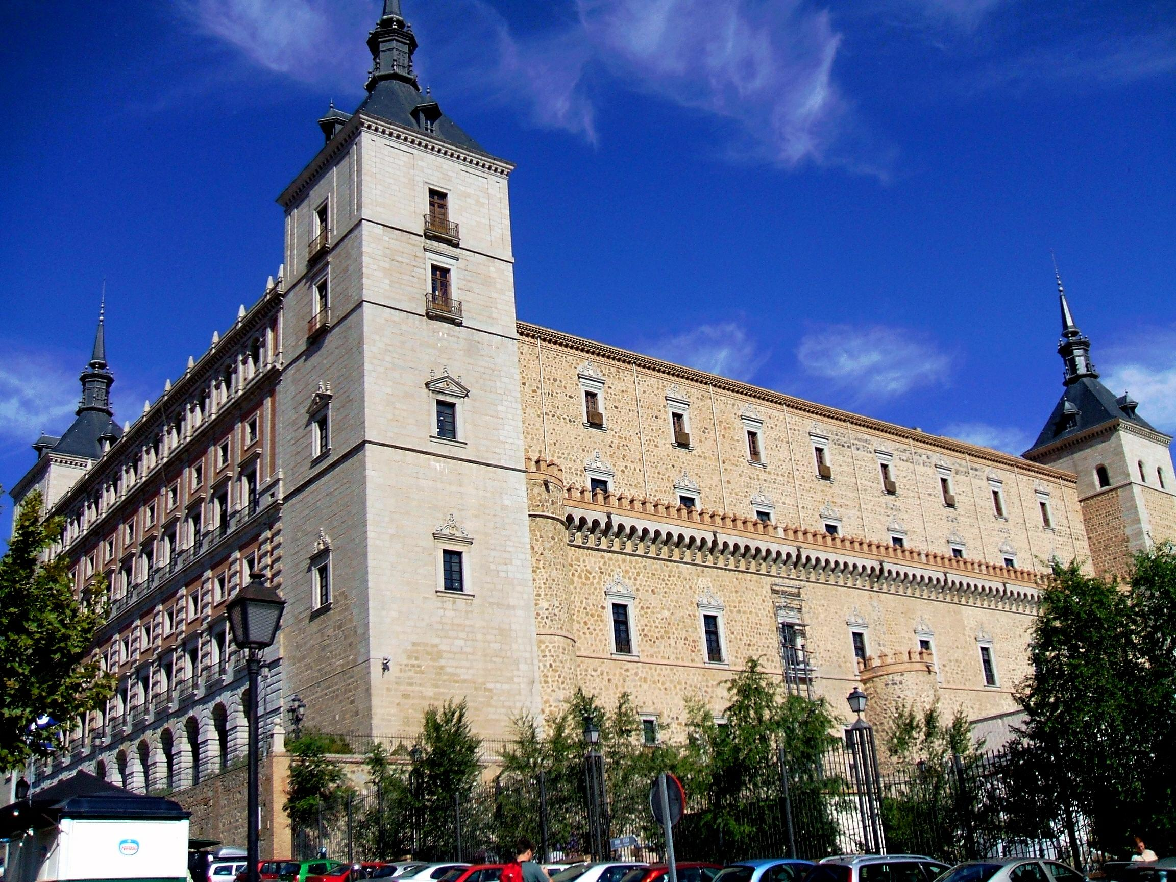 Alcázar de Toledo (Castilla-La Mancha, España)